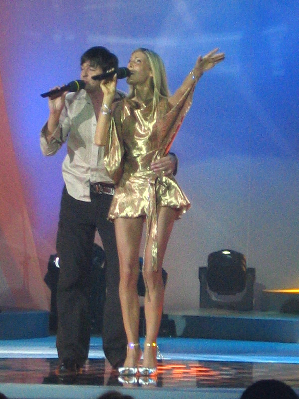 Platin, slovenian pop-duo photo:Ziga 10:11, 10 February 2007 (UTC)